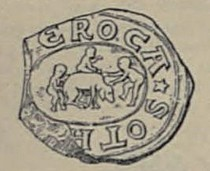 Seal of Otto de la Roche